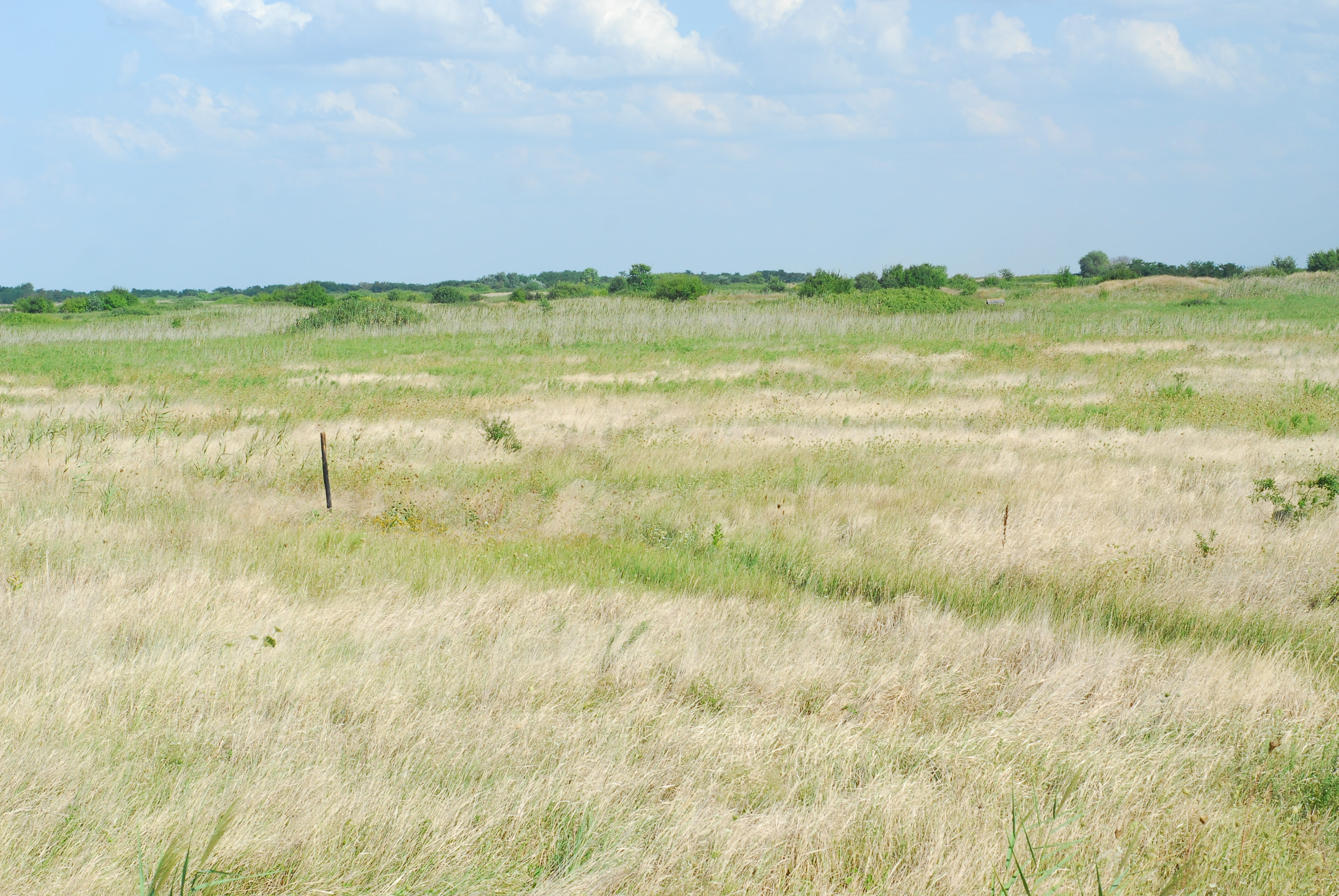 Grassland. Nature reserve "Kočovat" Banat, Serbia Ово је фотографија заштићеног природног добра у Србији под шифром: РП21 This is a a photo of a natural area in Serbia with ID: РП21